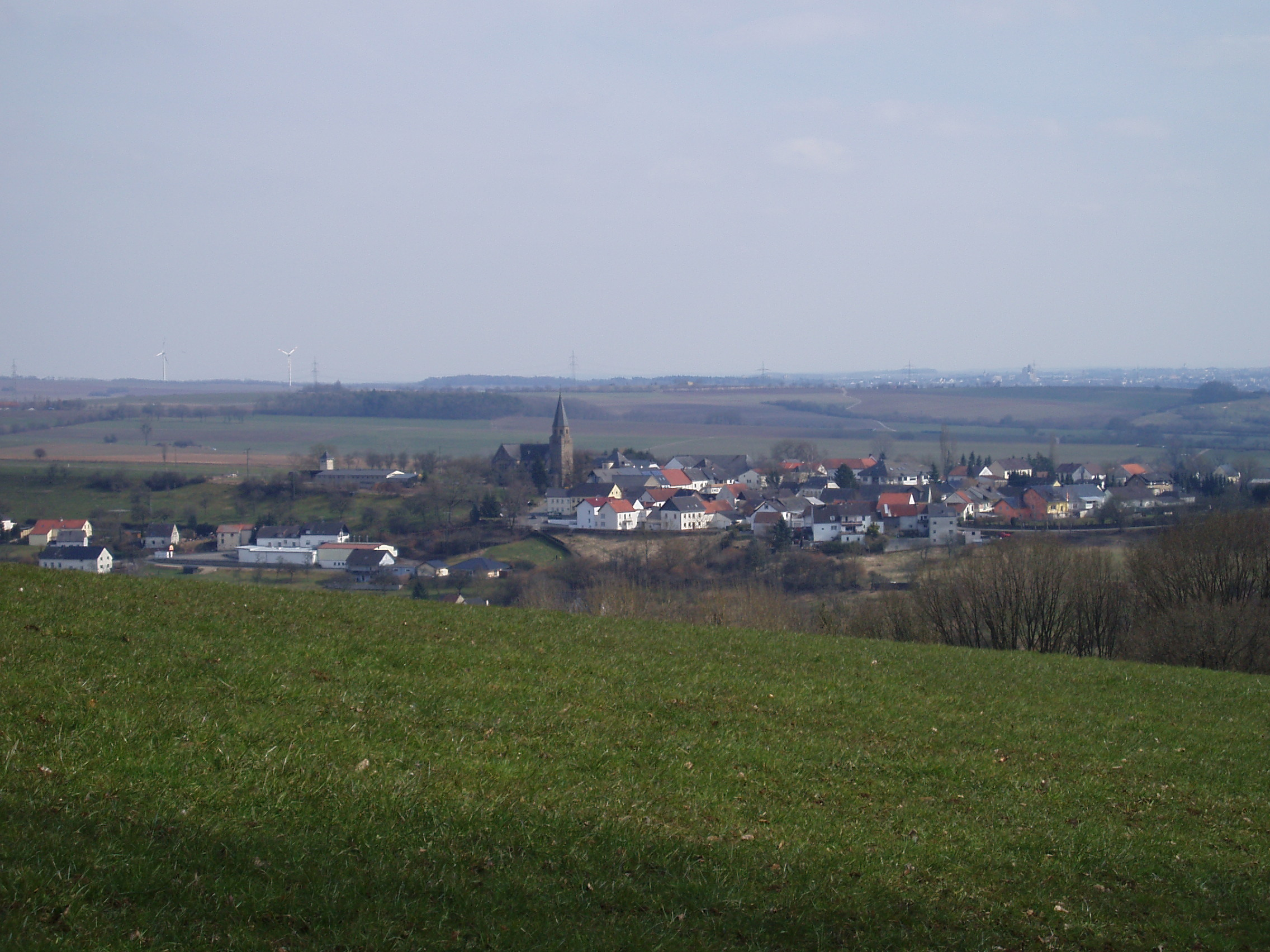 Biersdorf am See